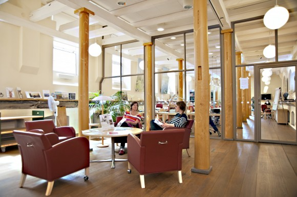 Public area of the library and archive at the Swedish National Heritage Board